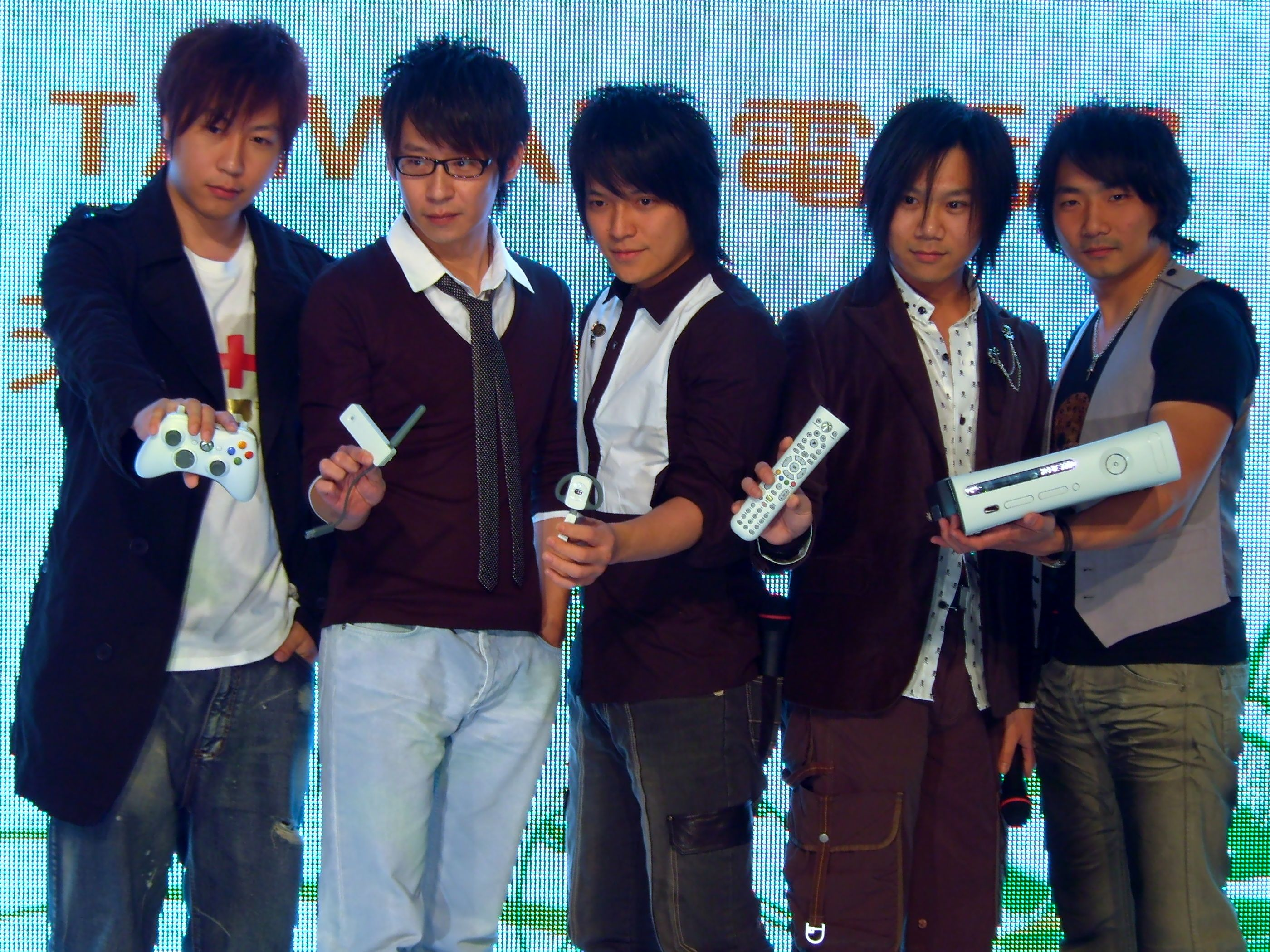 Taiwanese Band "MayDay" held every part of XBOX360 at X06 Taiwa.